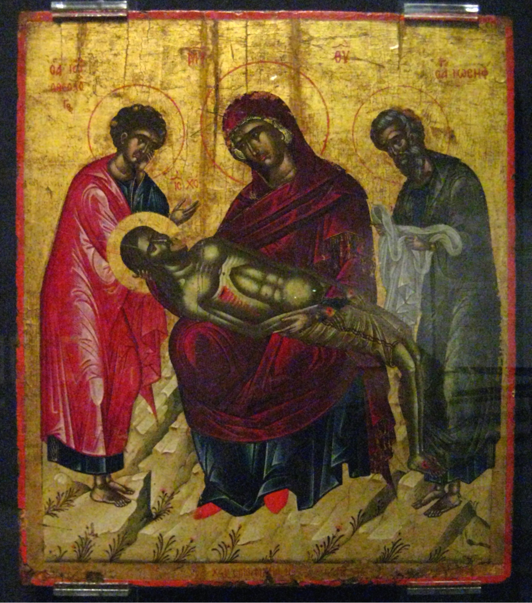 Emmanuel Tzanes. Lamentation. 1657. A.S. Onassis foundation